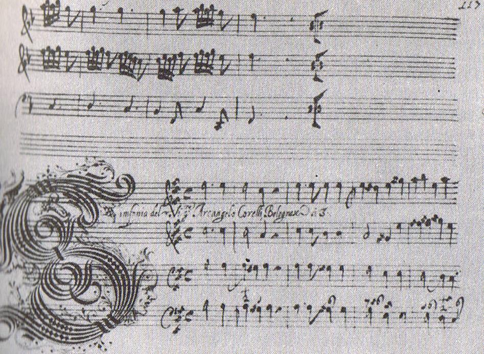 Autograf Sonaty a tre